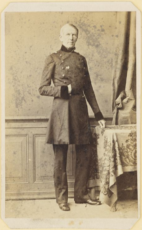 Rudolf von Carnall (1804–1874) - German engineer of mining, geologist; the albumen print (83 x 54 mm on 92 x 57 mm pasteboard)